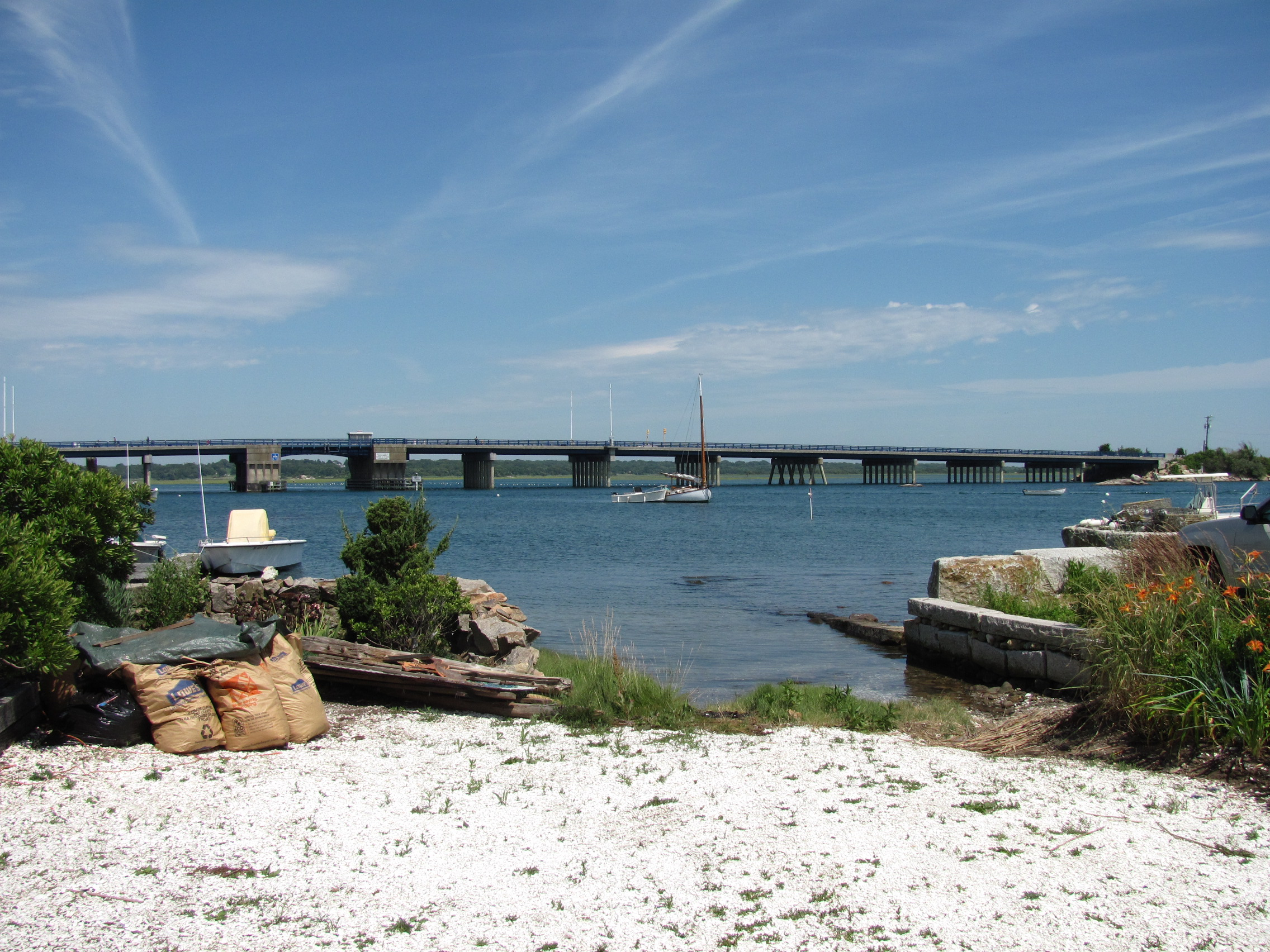 Massachusetts Route 88 bridge over the Westport River, Westport Point Massachusetts, July 2010. The bridge was built in 1958 and is a double-leaf bascule bridge.